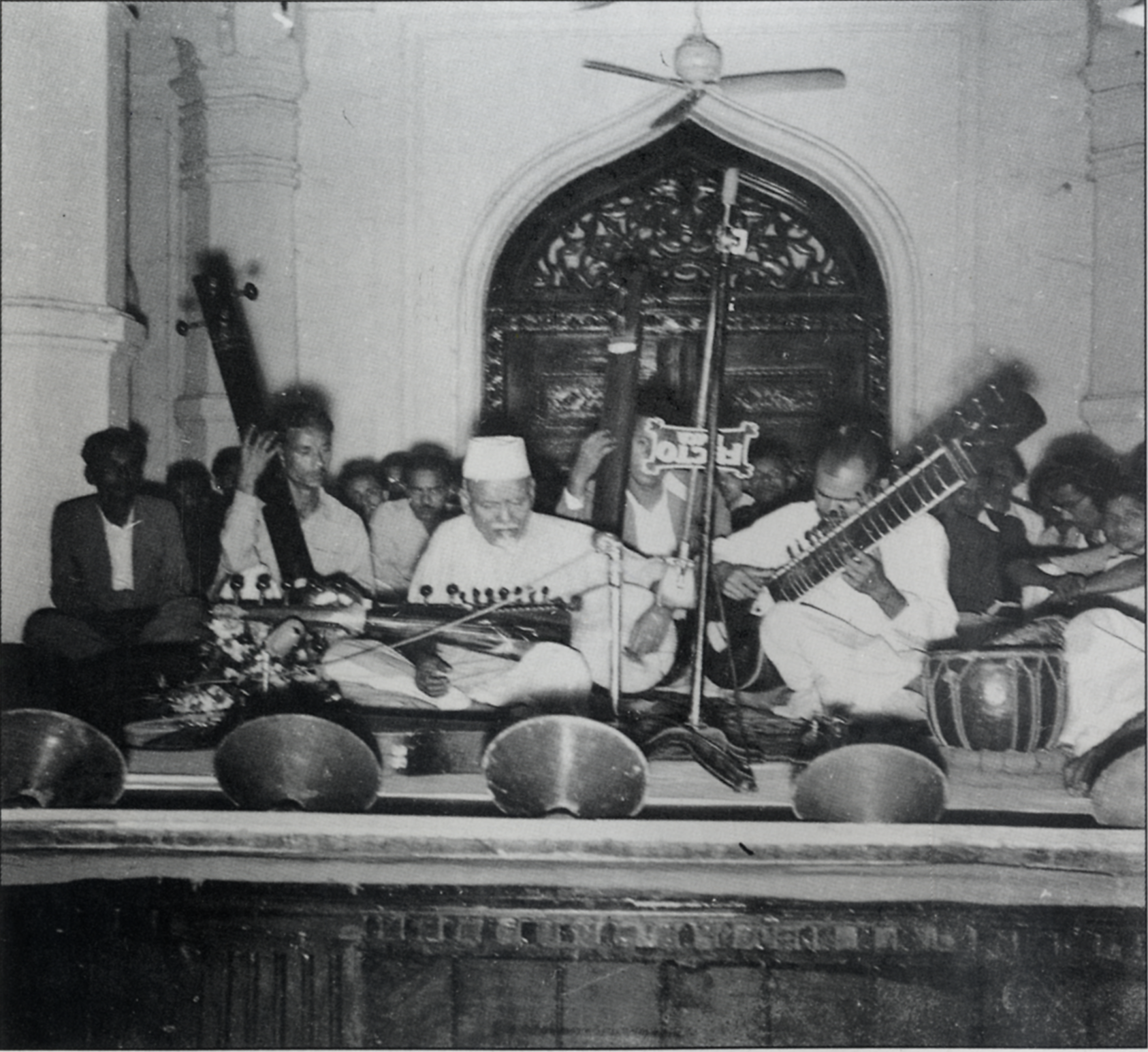 Winter 1955. Ustad Alauddin Khan playing sharod in Karjon hall, accompanied by Ustad Khadem Hossain Khan playing setar.